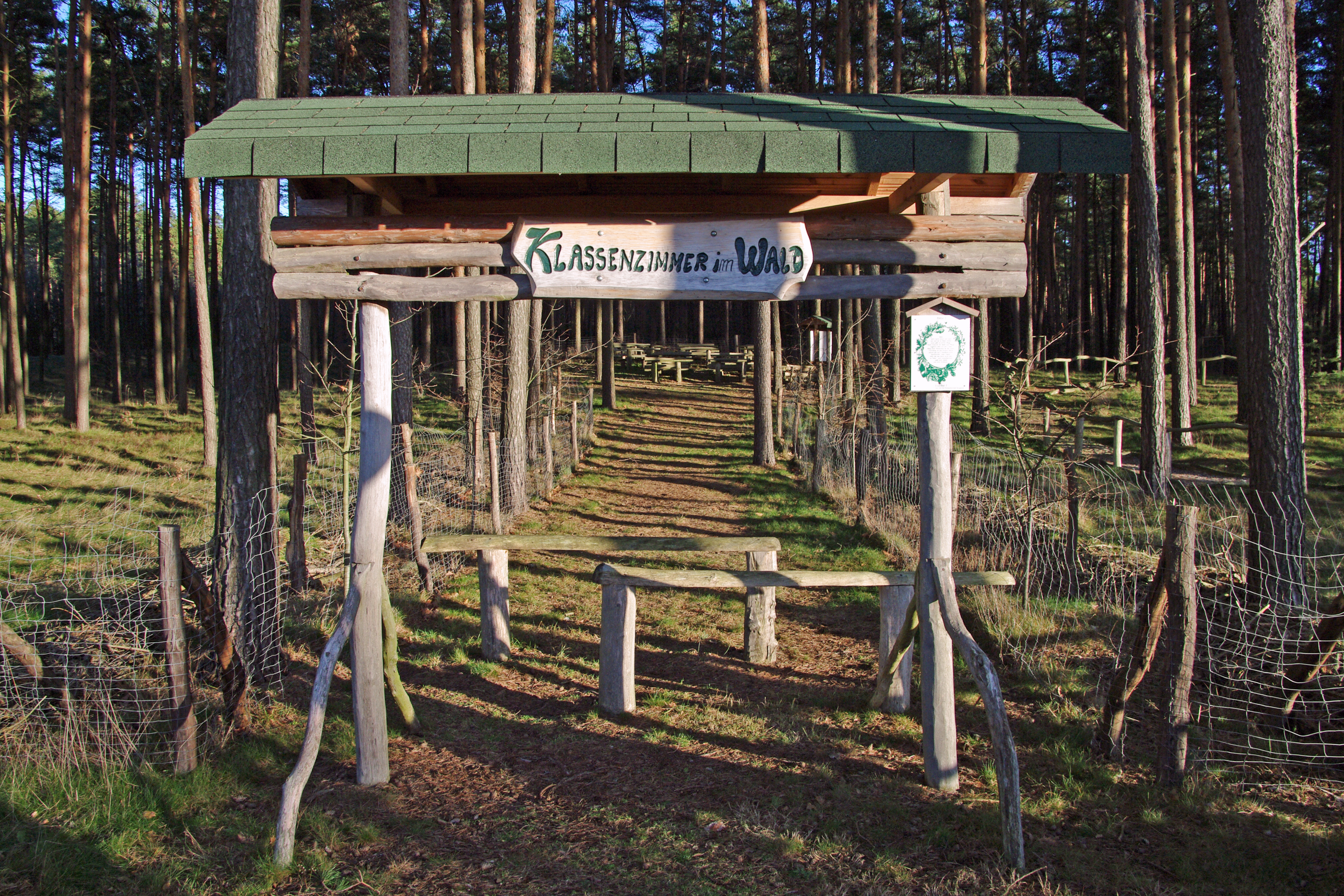 Forest classroom in Neu-Vehlefanz, Brandenburg, Germany